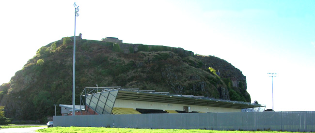 Strathclyde Homes Stadium - multi-use stadium in Dumbarton, Scotland.